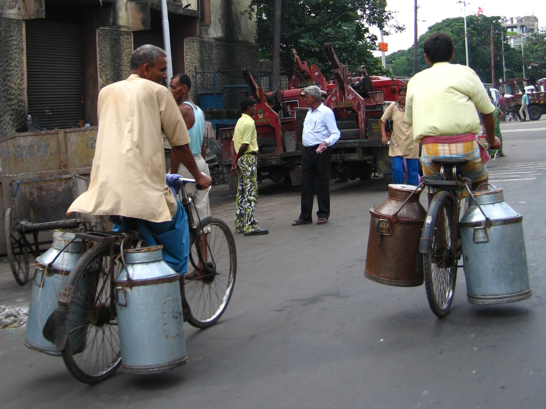 Milk churns being carried on bicycles, Kolkata, India.